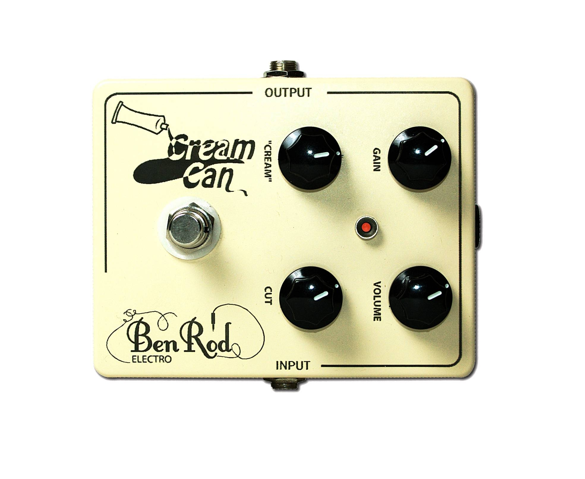 Benrod Electro 'Cream Can' guitar effect pedal.